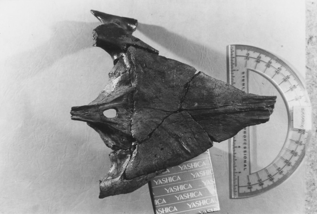 Dermal skull roof (frontals, parietal, postorbitofrontals) of the mosasaur Selmasaurus russelli, from the Upper Cretaceous (Campanian) Mooreville Chalk Formation of Alabama.